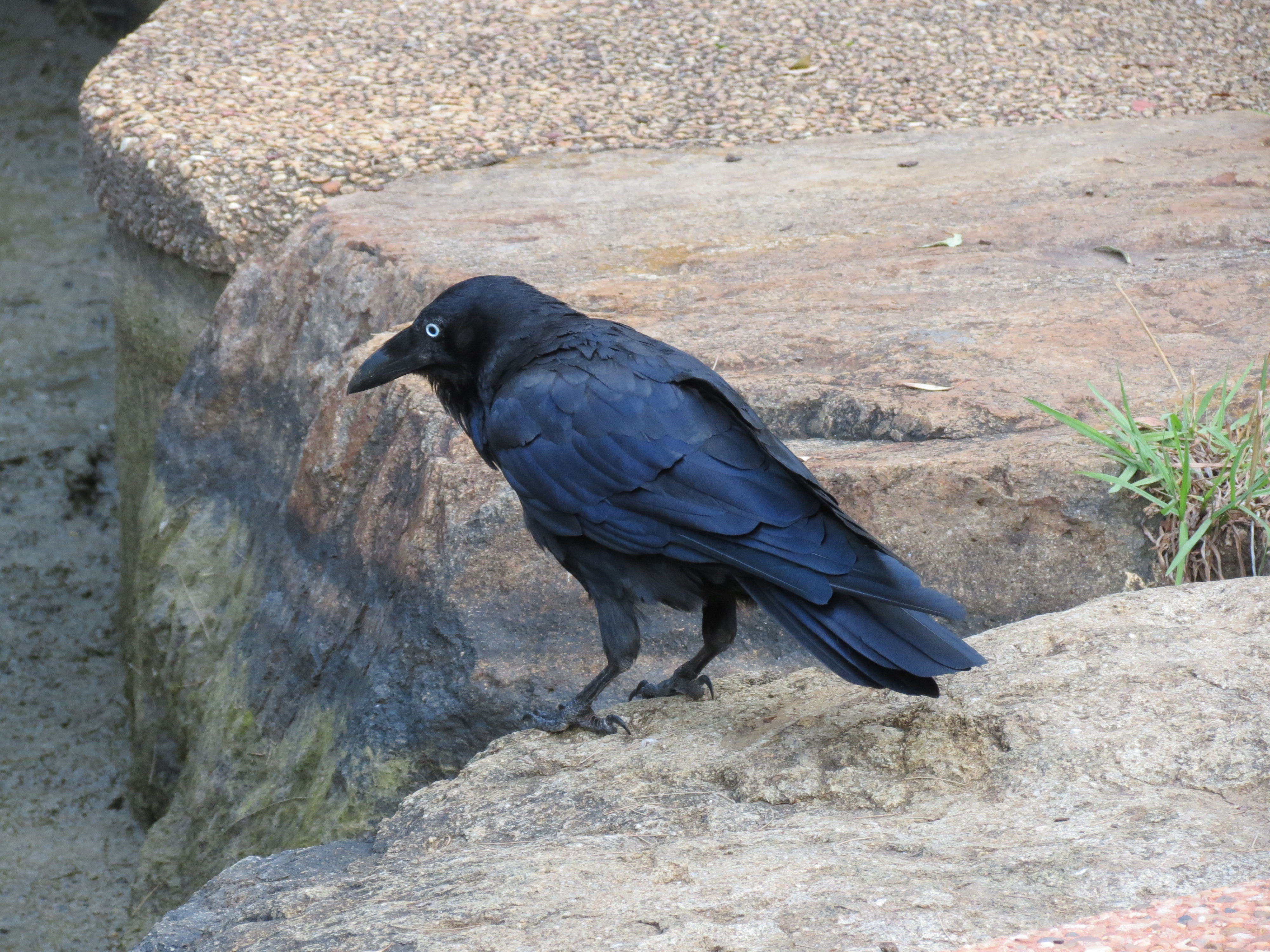 Corvus coronoides Vigors & Horsfield, 1827, Australian Raven, John Knight Memorial Park, Belconnen, ACT, 27 December 2013